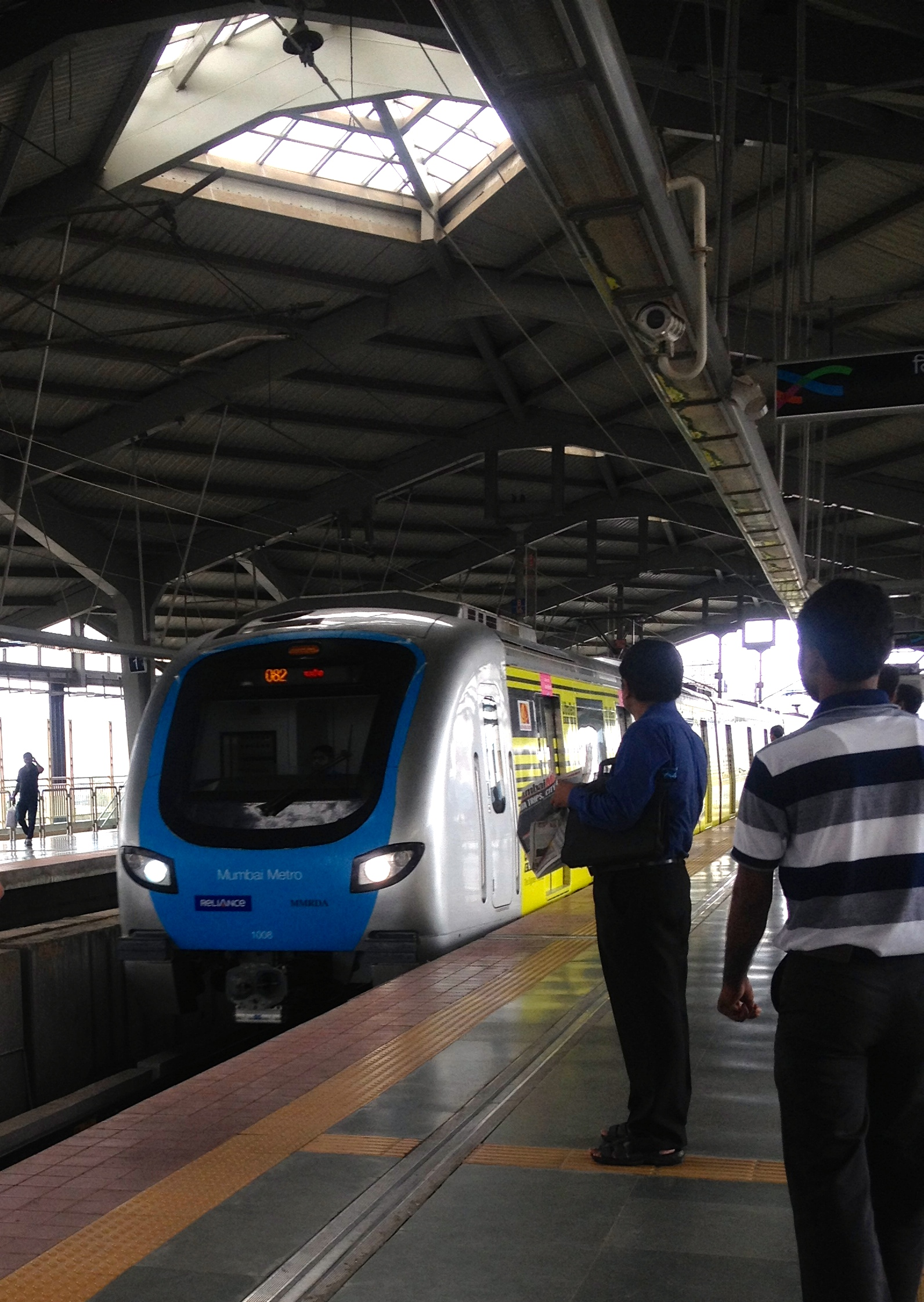 Mumbai Metro rake arriving at Saki naka station in Mumbai India